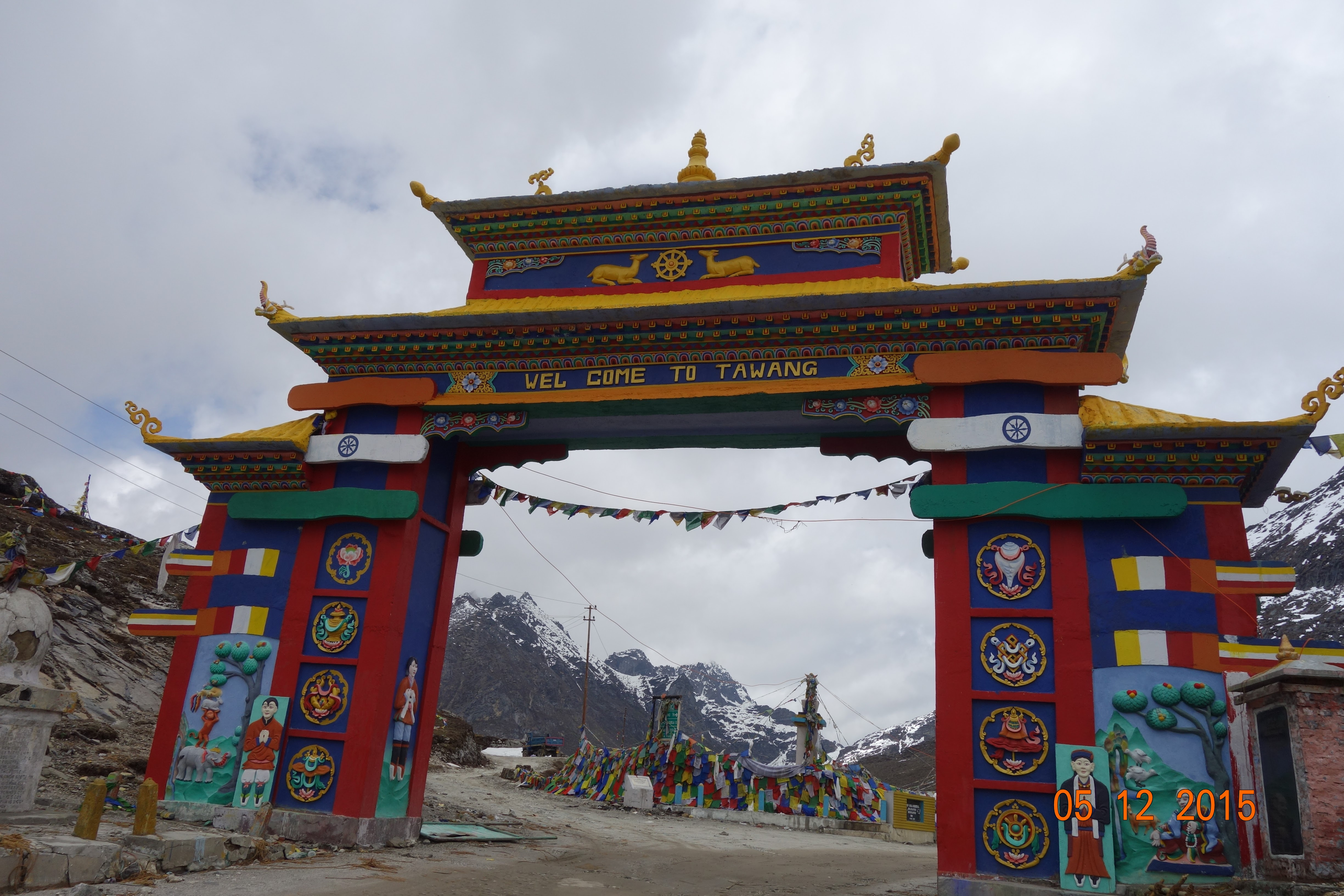 Welcome arch to Tawang District at Sela, Arunachal Pradesh, India